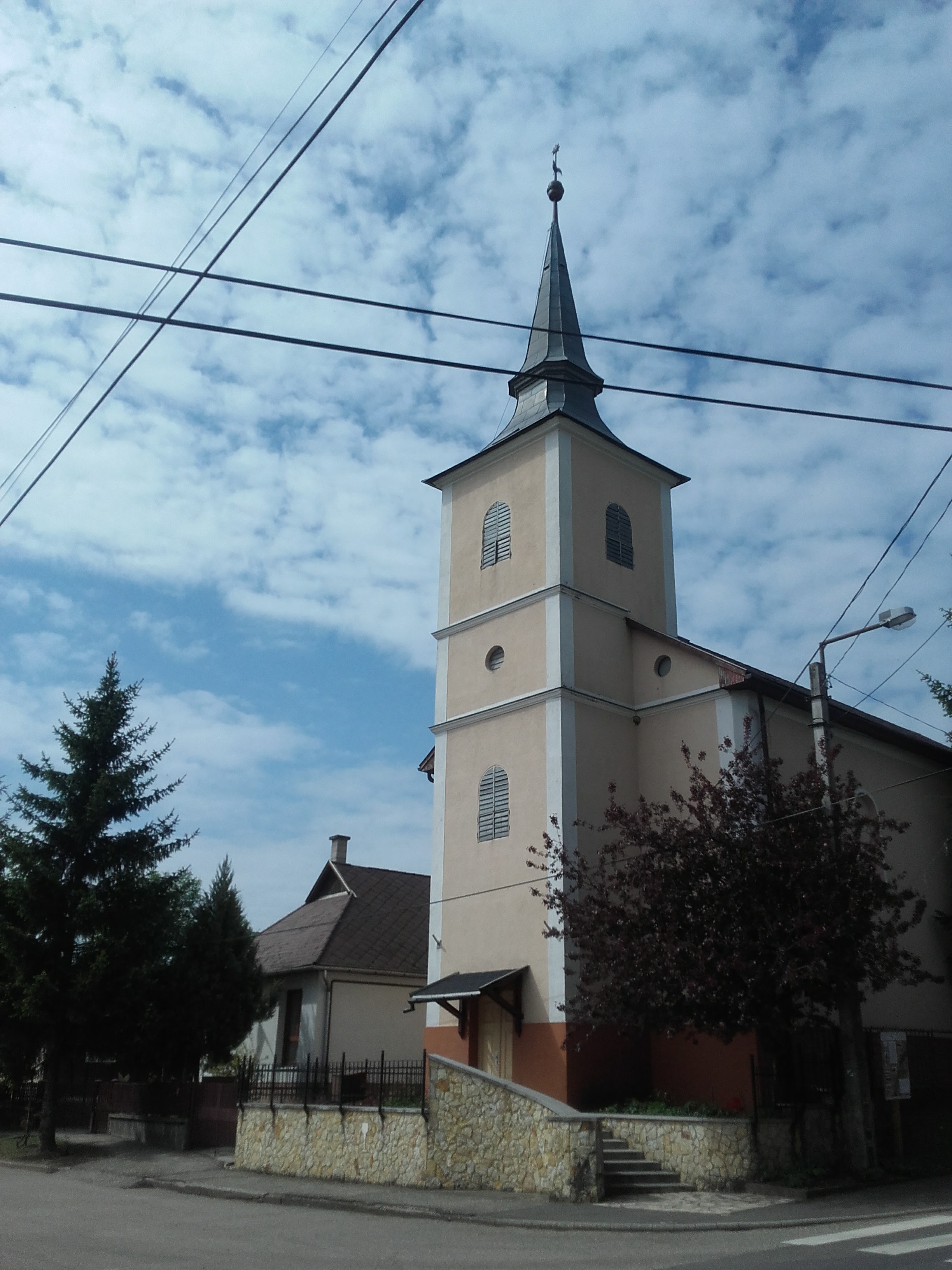 The Reformed Church of Alsódobsza, Hungary, built in 1807